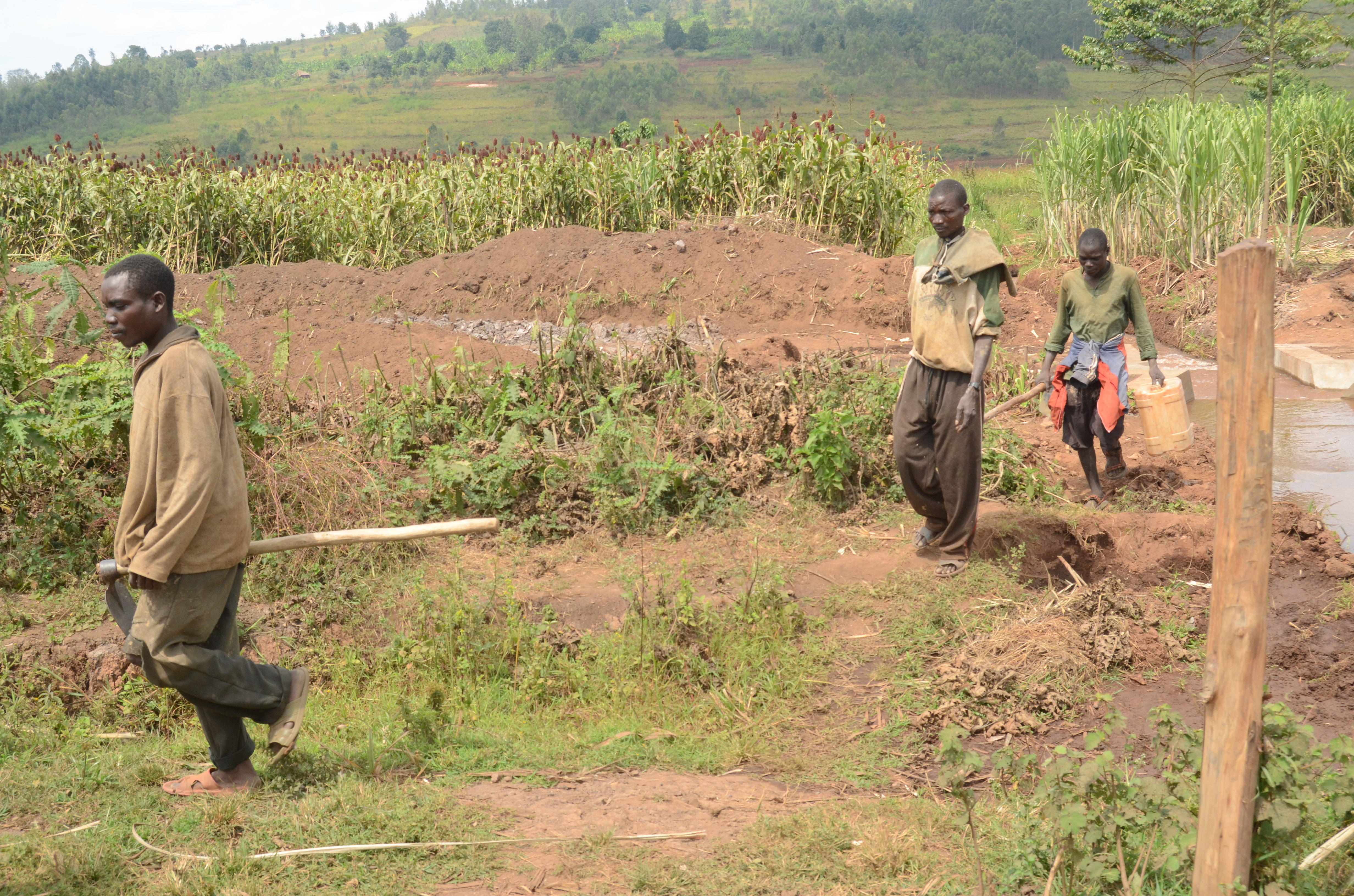 This is an image of "African people at work" from Burundi